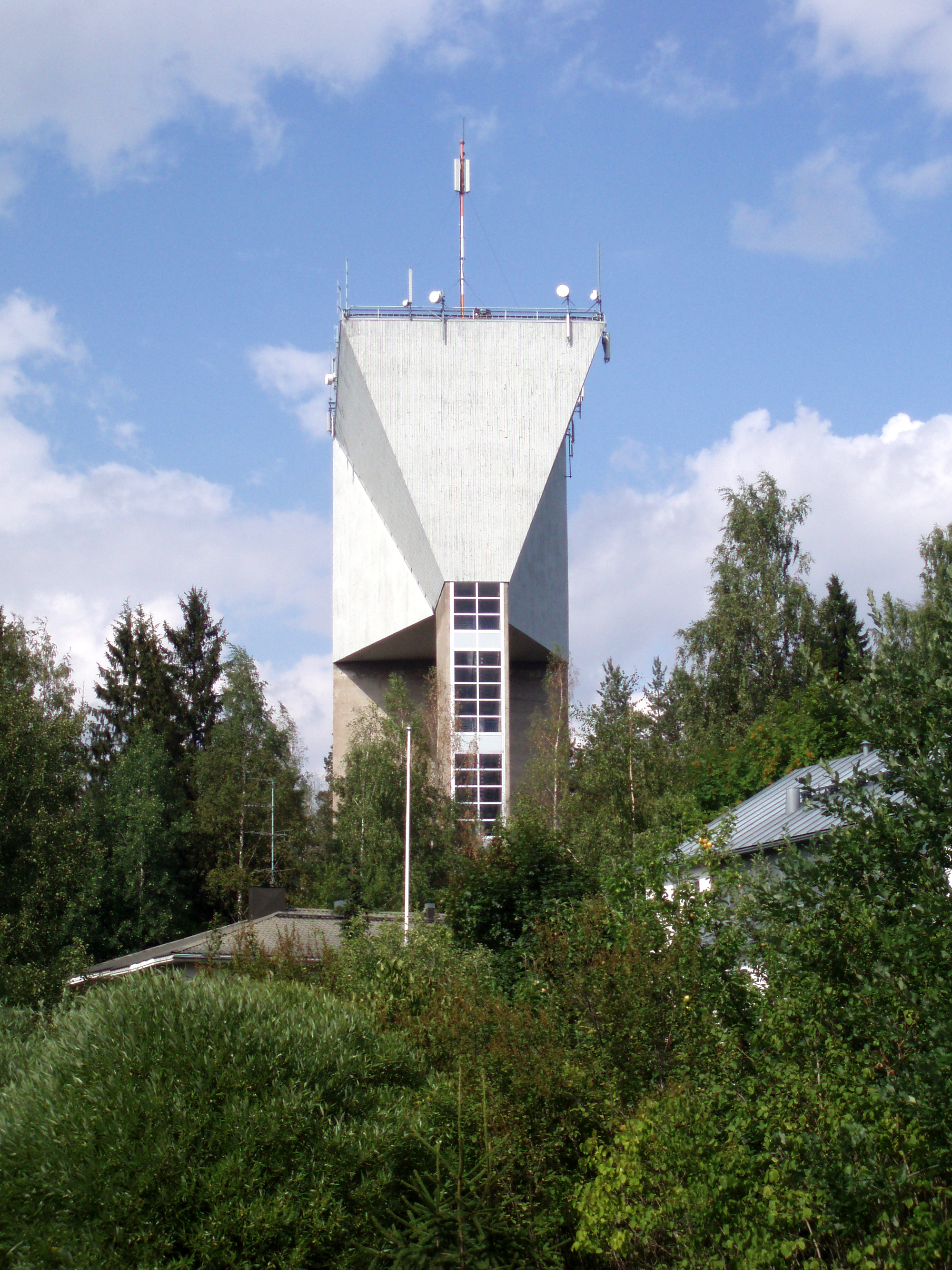 The Water Tower in Järvenpää, Finland